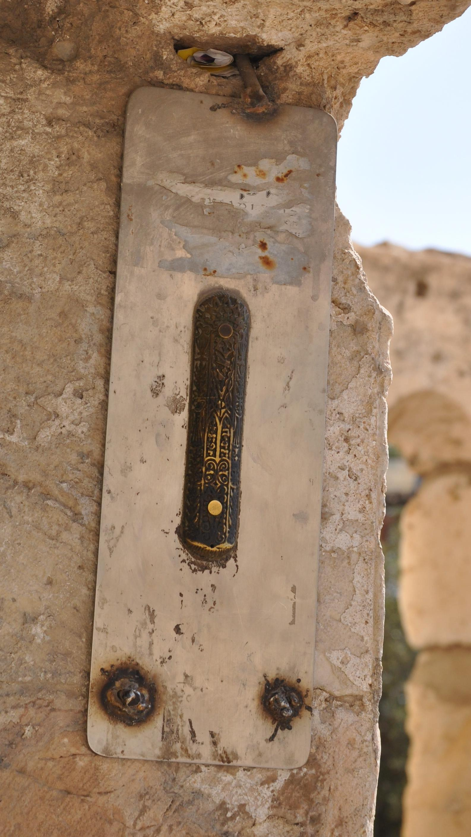 Mezoezah at a gate of Jerusalem near the Western Wall.